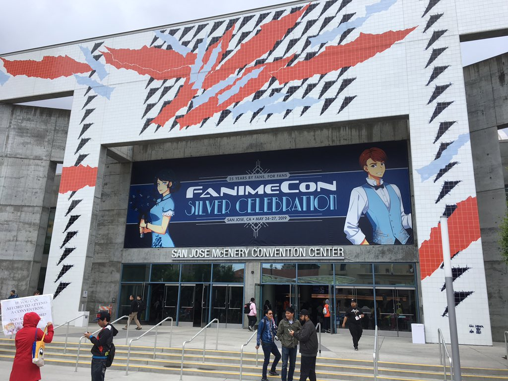 The entrance of FanimeCon 2019, highlighting the Silver Anniversary.